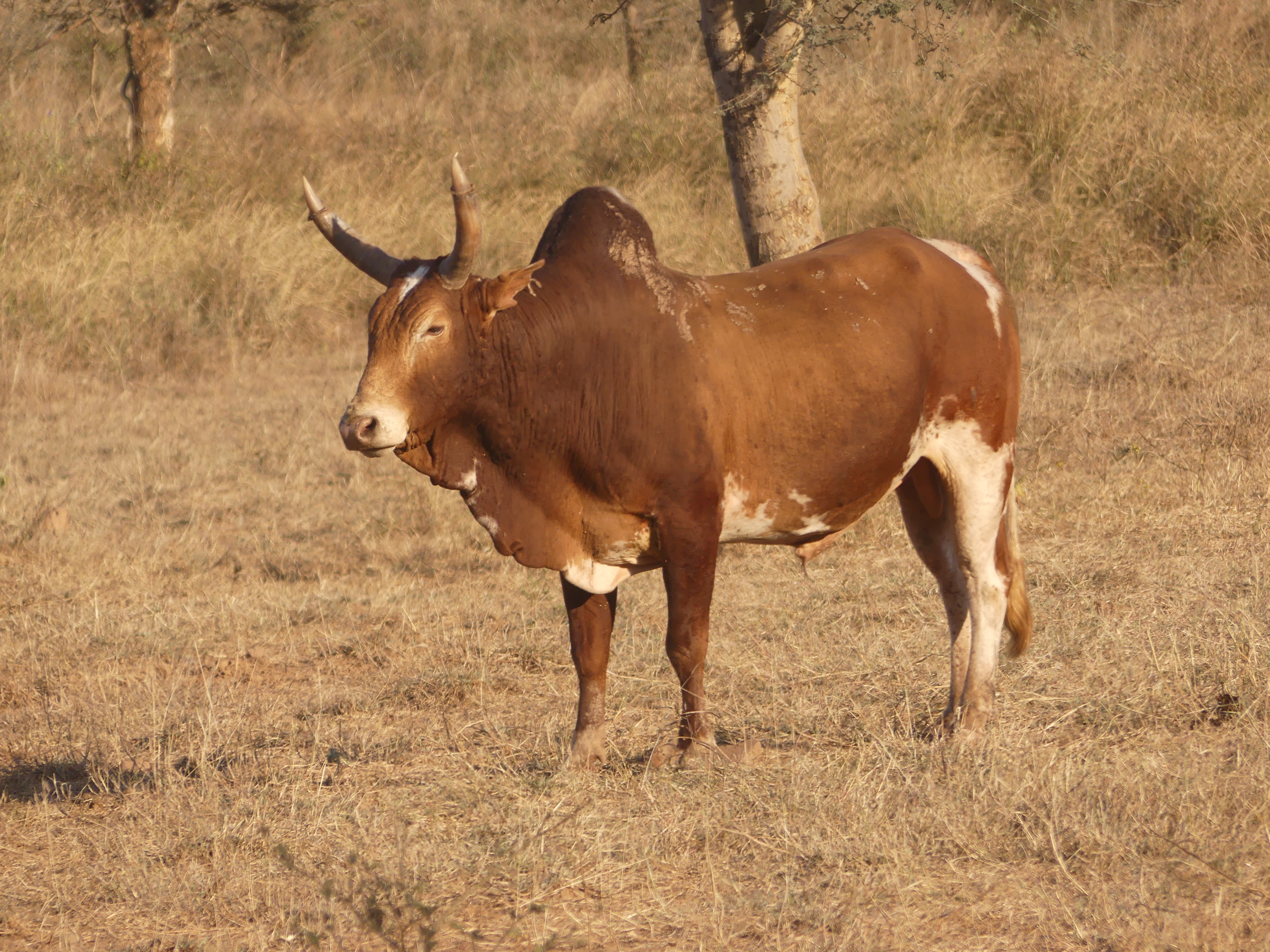 A well-fed bull in Kuno Wildlife Sanctuary